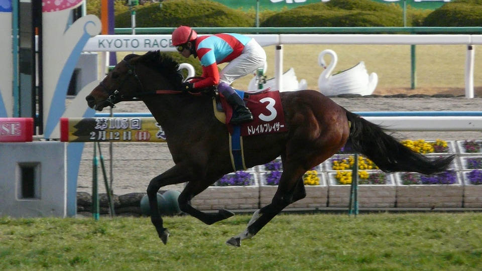 Trailblazer-horse20120212(1)